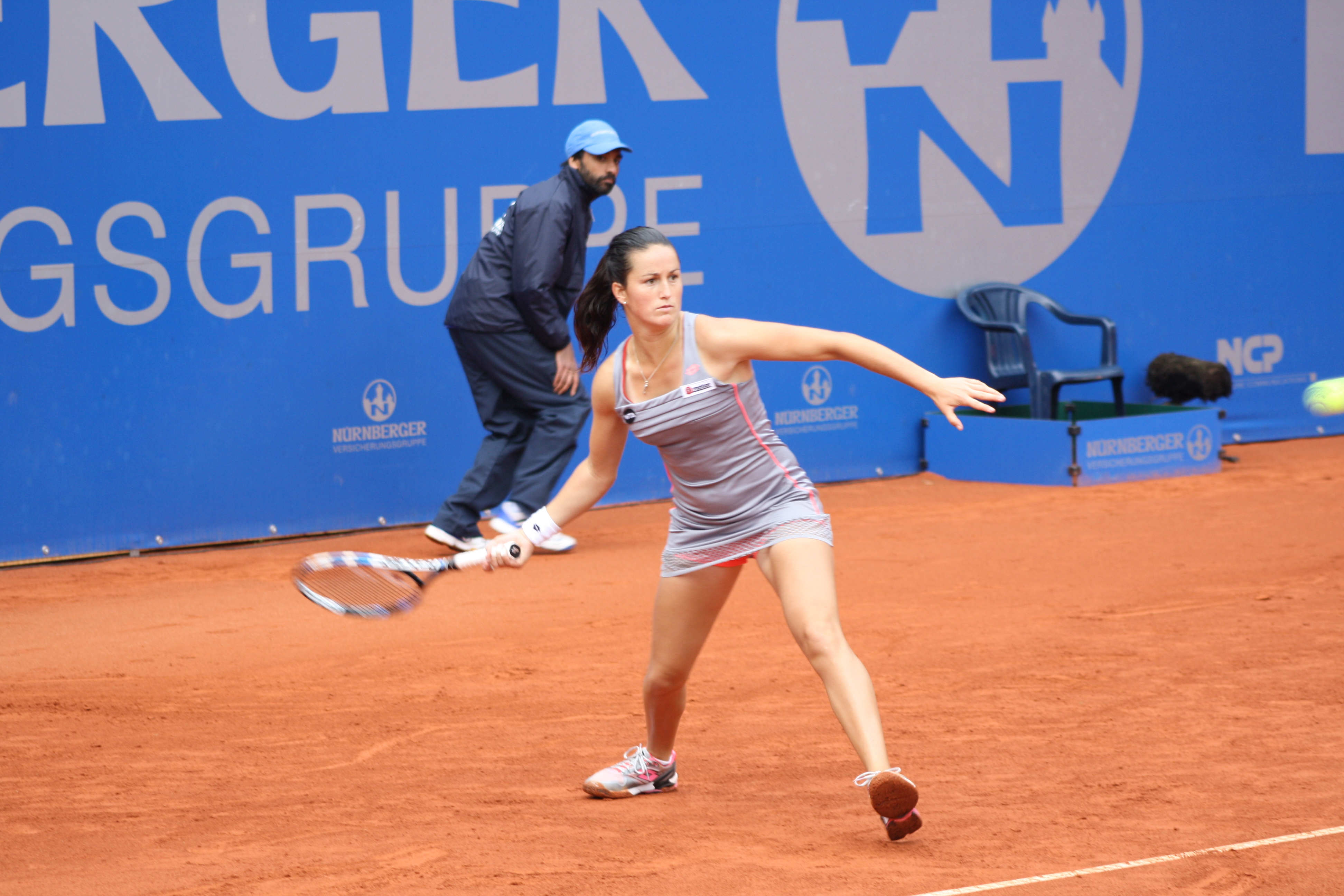 Lara Arruabarrena Vecino, May 2015